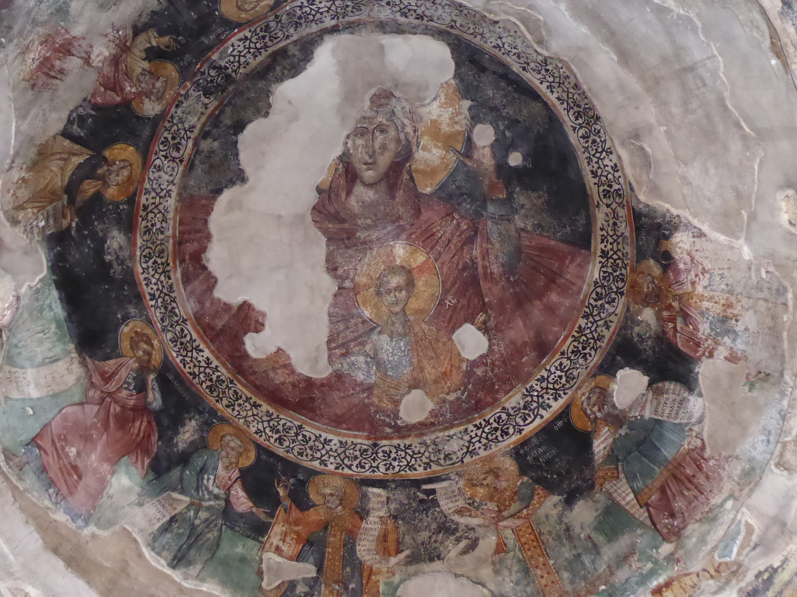 Frescos at Agia Paraskevi, Yeroskipou